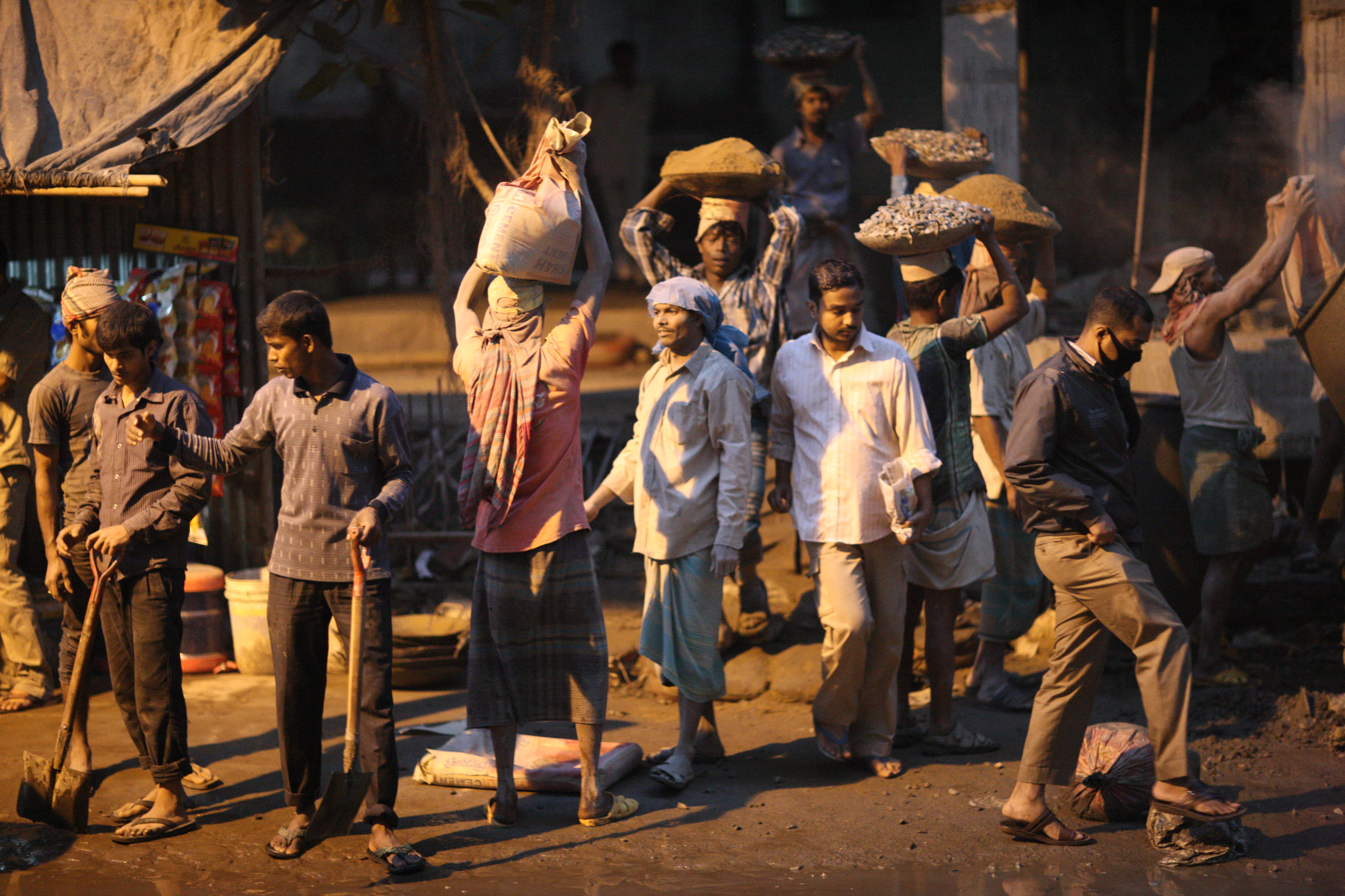 Like every Friday they were at it again but this they carried on a little more than usual. I thought they'd stop before sunset, the workers of the construction site of a new hospital and a medical college. SOOC. GEC, Chittagong